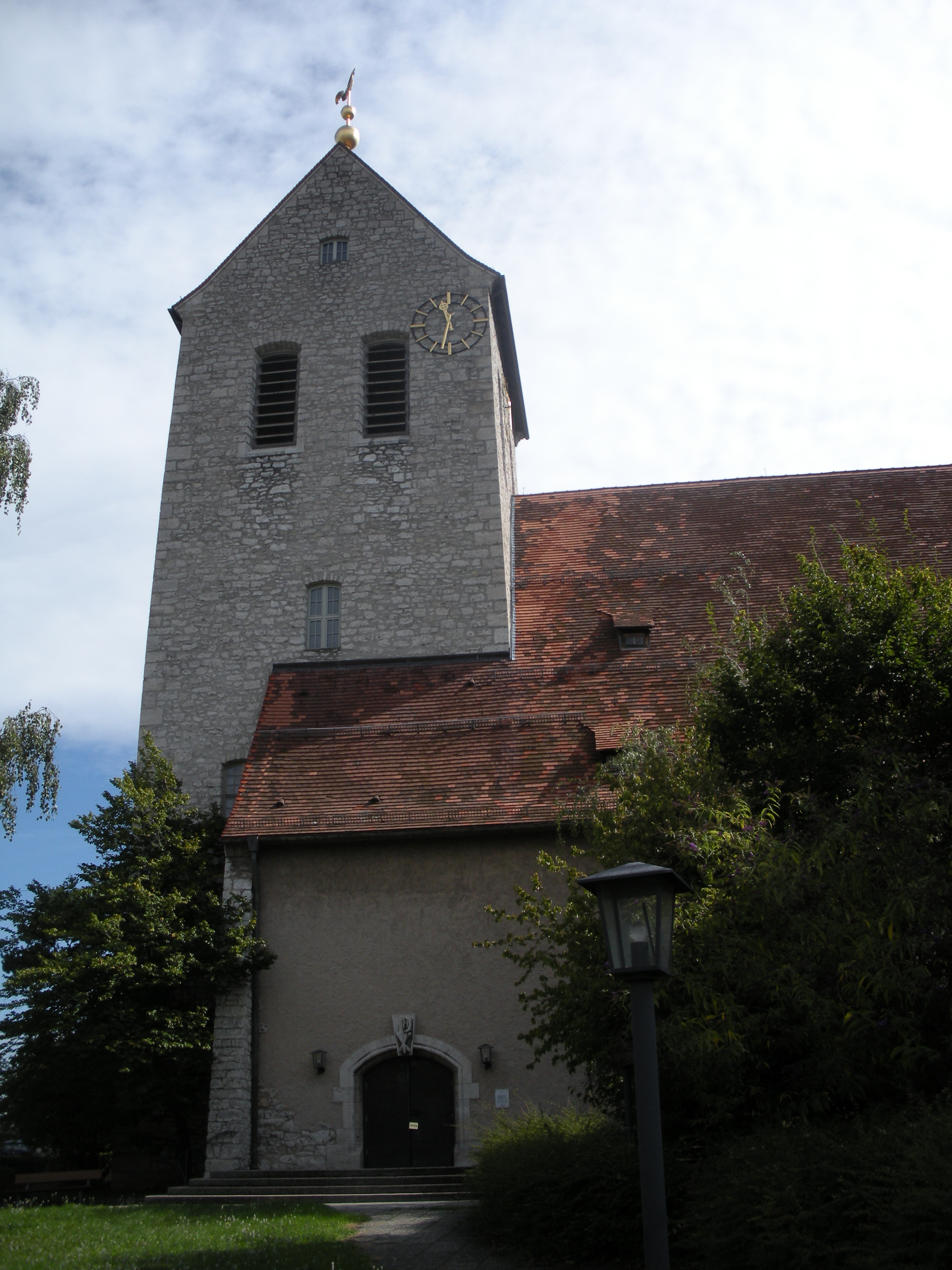 Protestant Church of Christ in Stuttgart-East